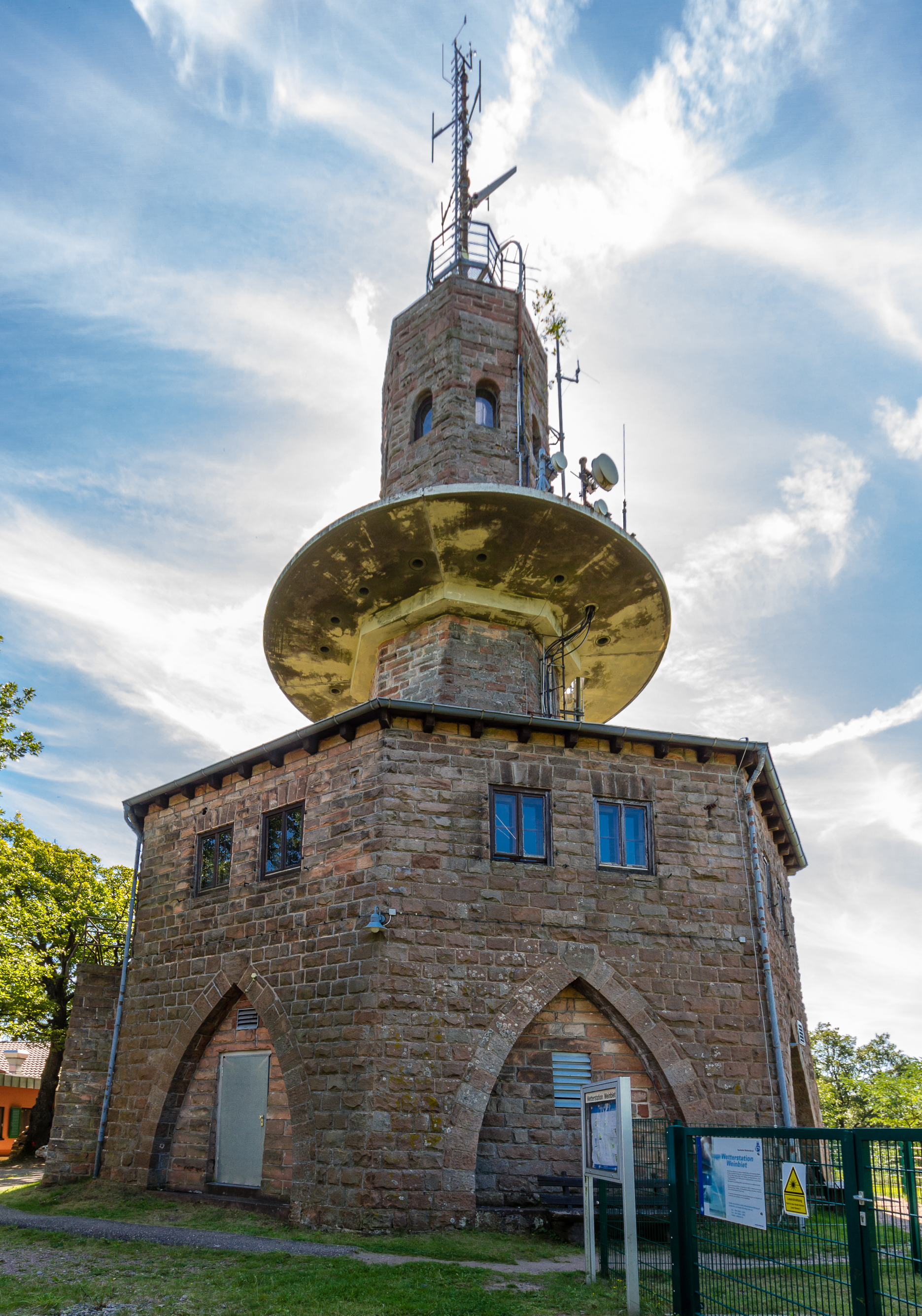 This is a photograph of an architectural monument.It is on the list of cultural monuments of Neustadt an der Weinstraße - Gimmeldingen Designation: Weinbiet tower Construction time: 1870–74 Description: Octagonal lookout tower on the summit of the 554 m high Weinbiet. Parabolic facing designated 1930, architect A. Sieber, increased in 1952. Place: Gimmeldingen, Neustadt an der Weinstraße, Rhineland-Palatinate, Germany Location: Weinbiet House number: 4 Parcel of land: West of the village on the Weinbiet.